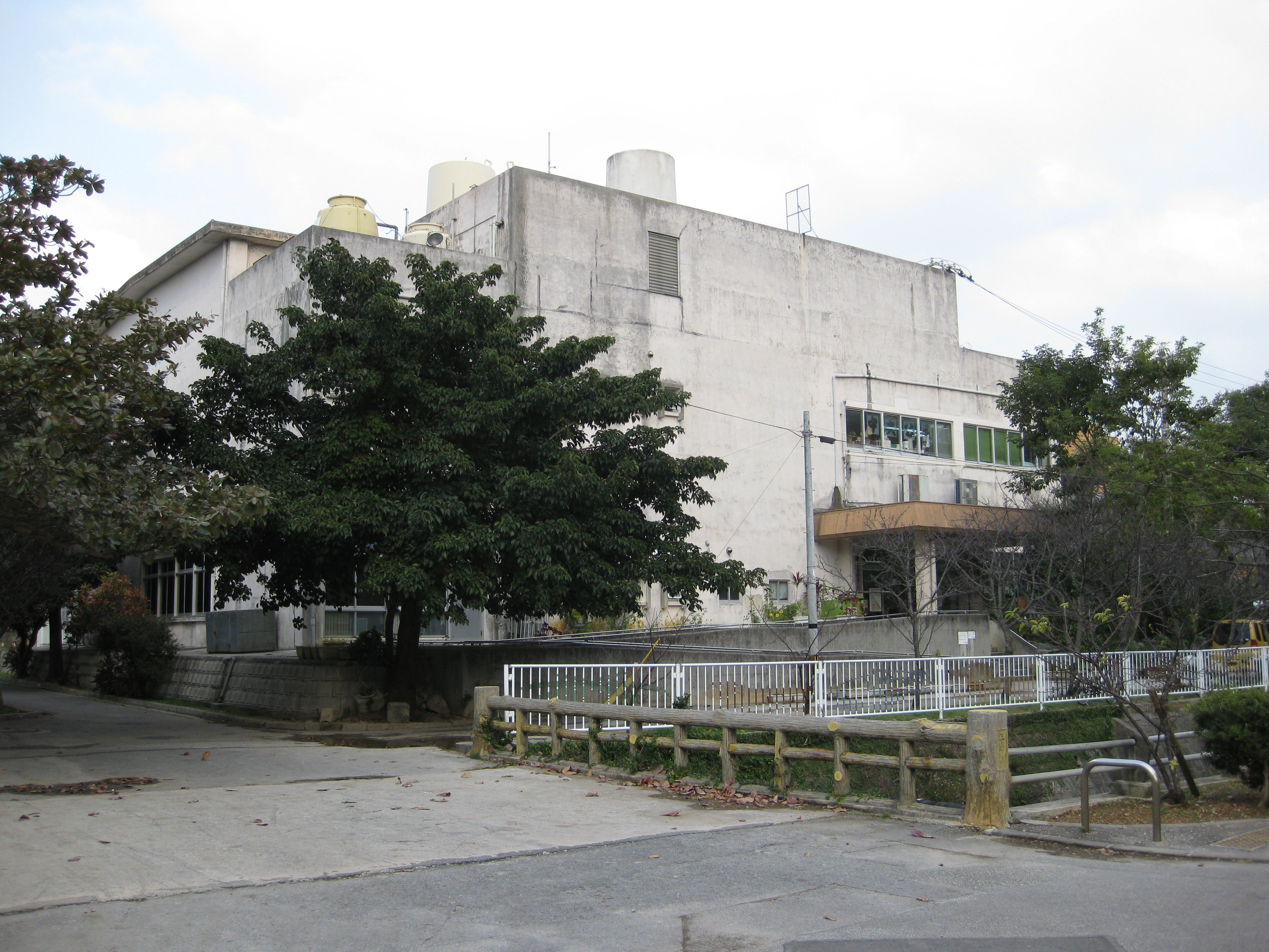 Central Library of Naha Public Library in Okinawa, Japan